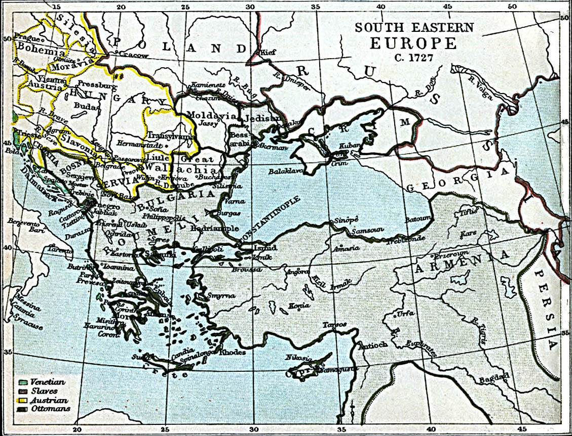 Maps of south-eastern Europe in 1727 AD.